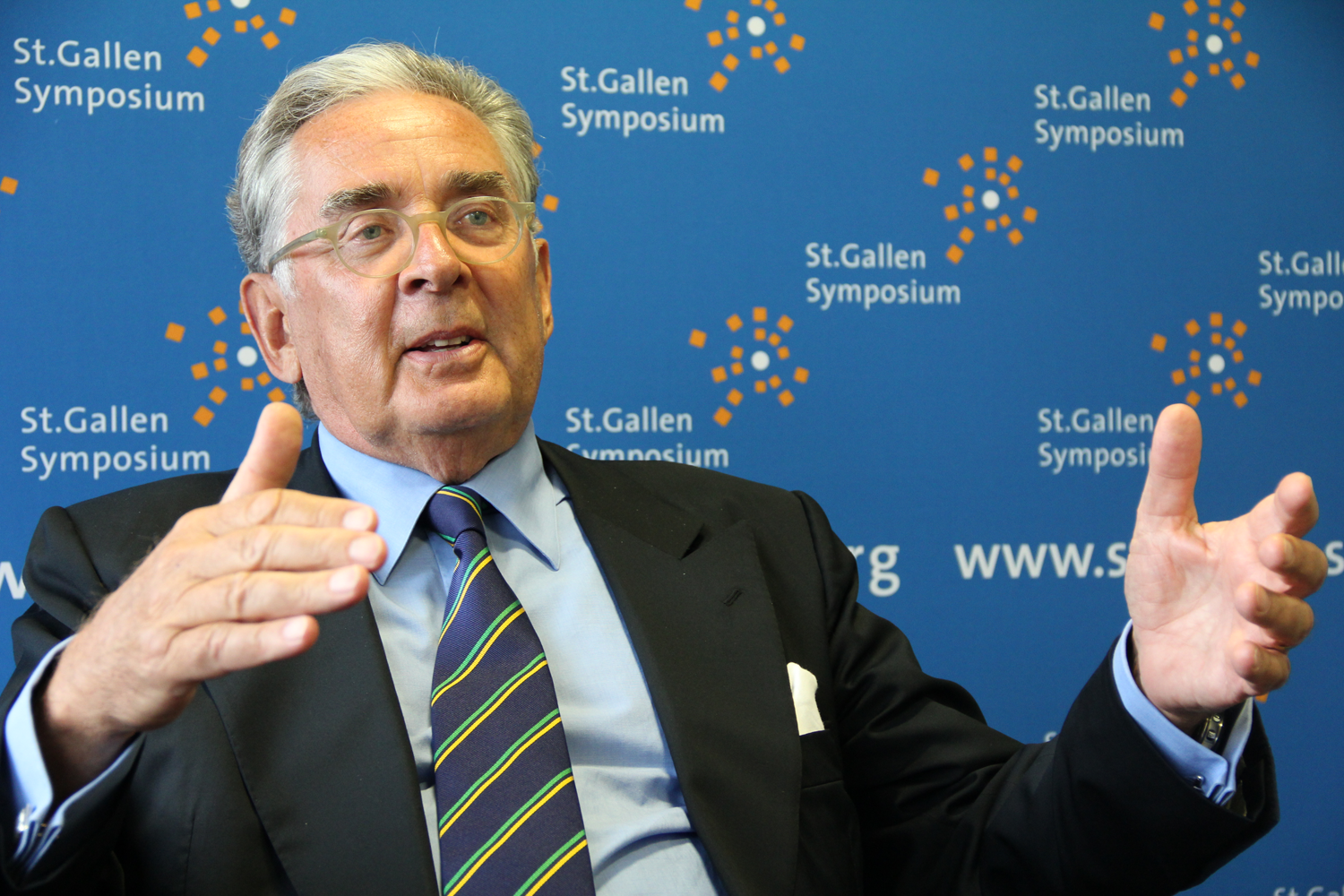 Eberhard von Koerber in May 2011 at the 41. St. Gallen Symposium at the University of St. Gallen